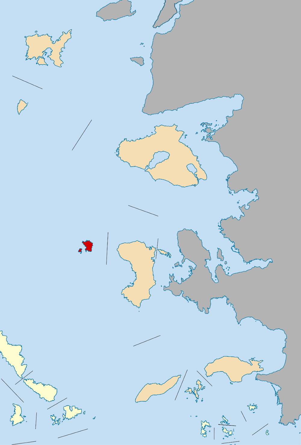 Locator map for Psara municipality in Greek region North Aegean (2011)